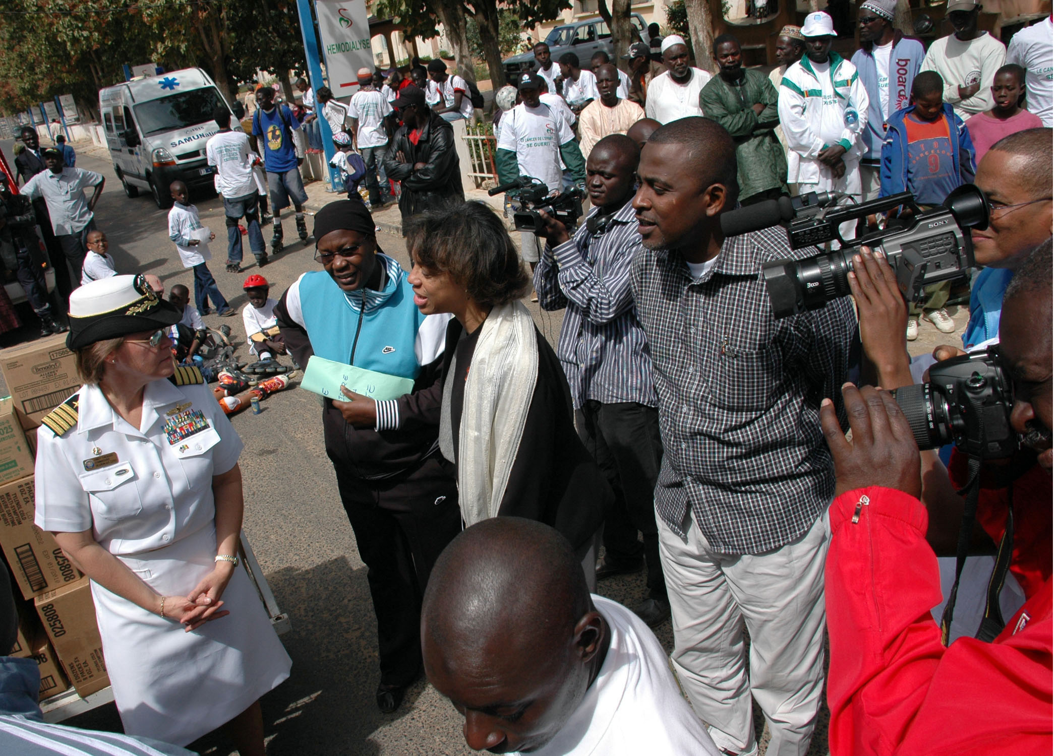 DAKAR, Senegal (Feb. 8, 2009) Capt. Cynthia Thebaud, commander of Africa Partnership Station, is interviewed during the Journee Mondiale de Lutte Contre le Cancer or World Day Against Cancer event at La Dantec hospital. The amphibious transport dock ship USS Nashville (LPD 13) is deployed as a part of Africa Partnership Station, an international initiative developed by Naval Forces Europe and Naval Forces Africa, which aims to work cooperatively with U.S. and international partners to improve maritime safety and security for the continent of Africa. (U.S. Navy photo by Mass Communication Specialist 2nd Class David Holmes/Released)